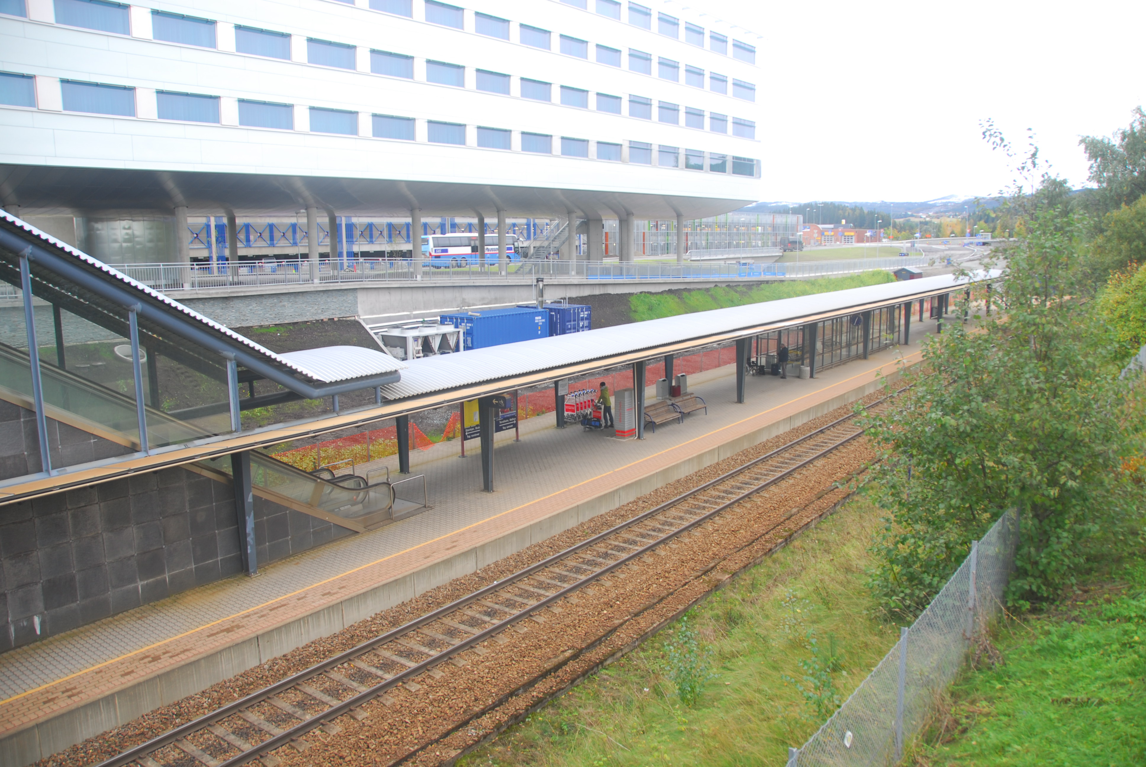 Railway station at Trondheim Airport, Værnes